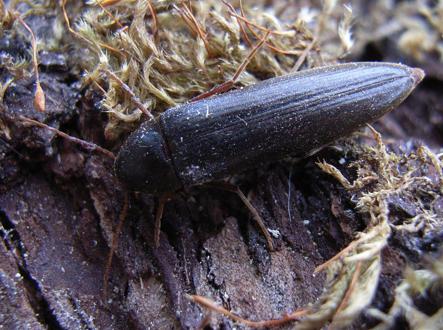 Serropalpus barbatus from Southern Germany (Kreis Tuttlingen) 700 m